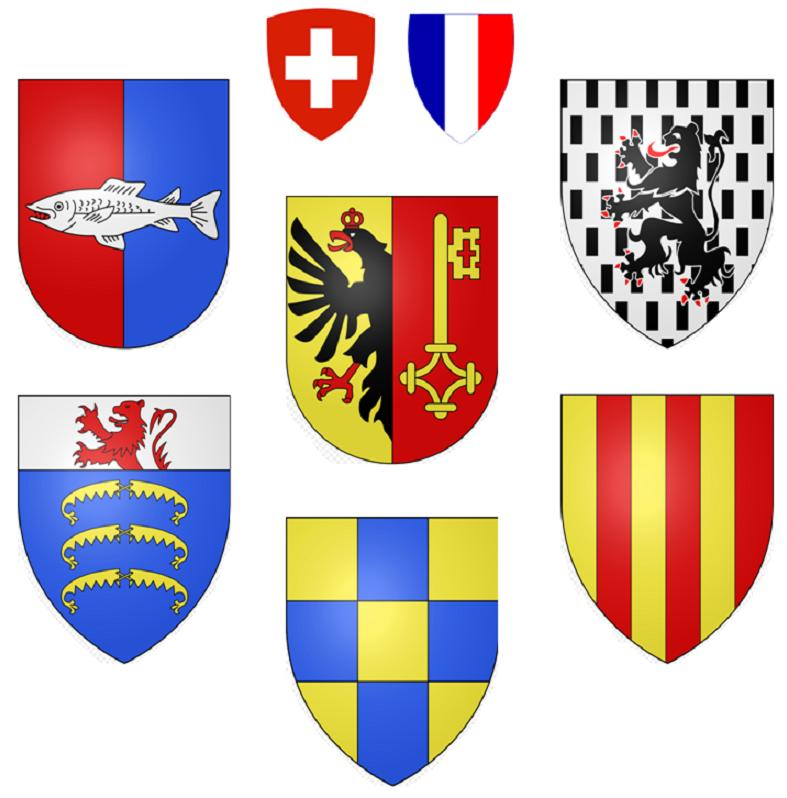 Coats of arms in French Swiss Greater Geneva area